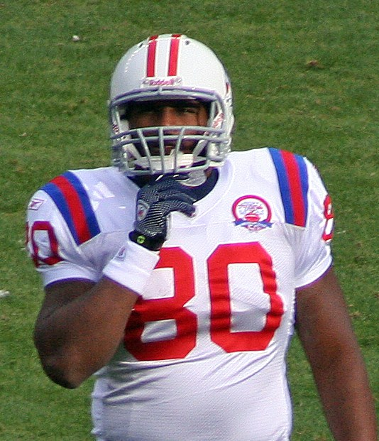 Michael Matthews, a player on the New England Patriots American football team.